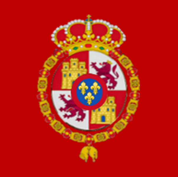 Royal Standart Lesser